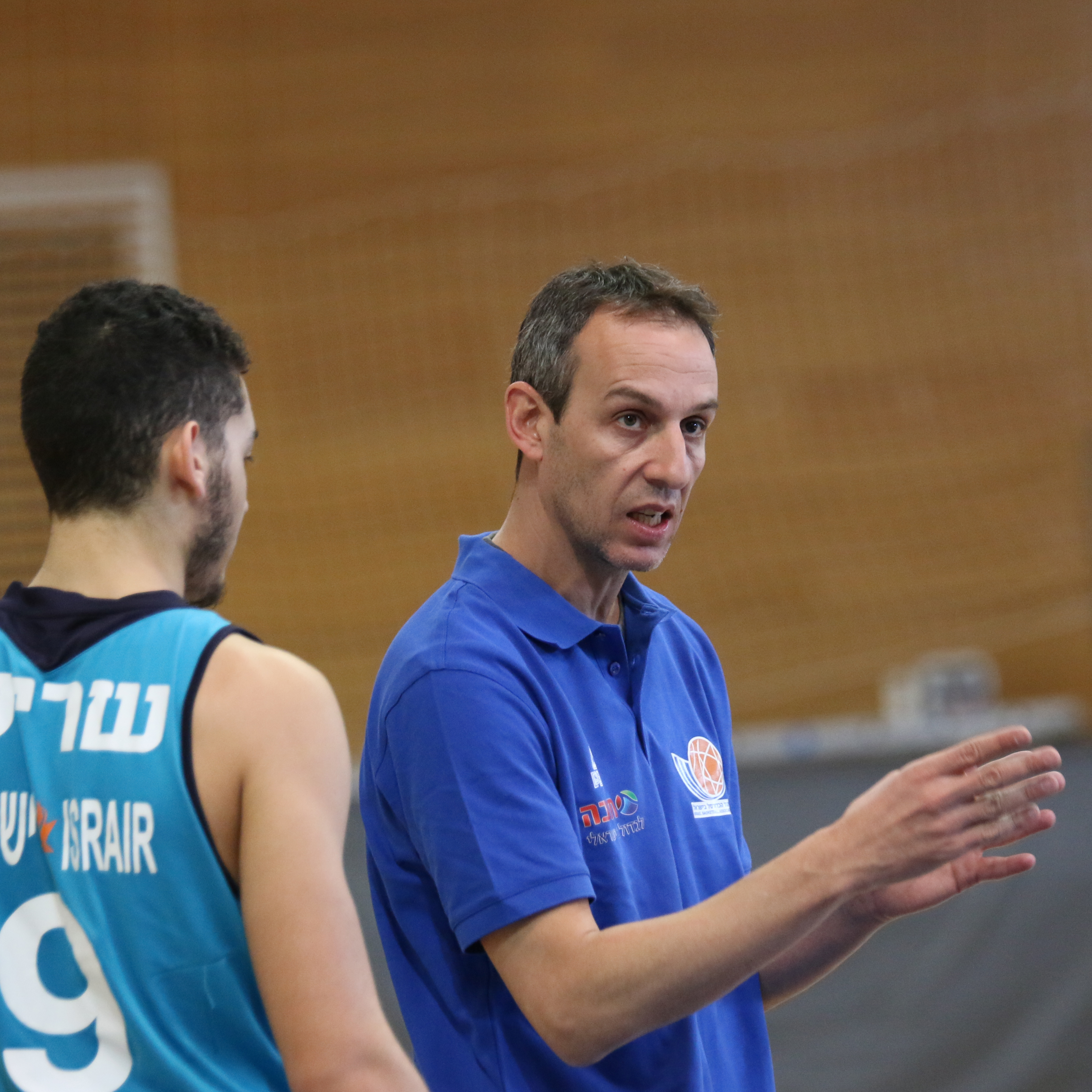 Katash Hapoel Eilat